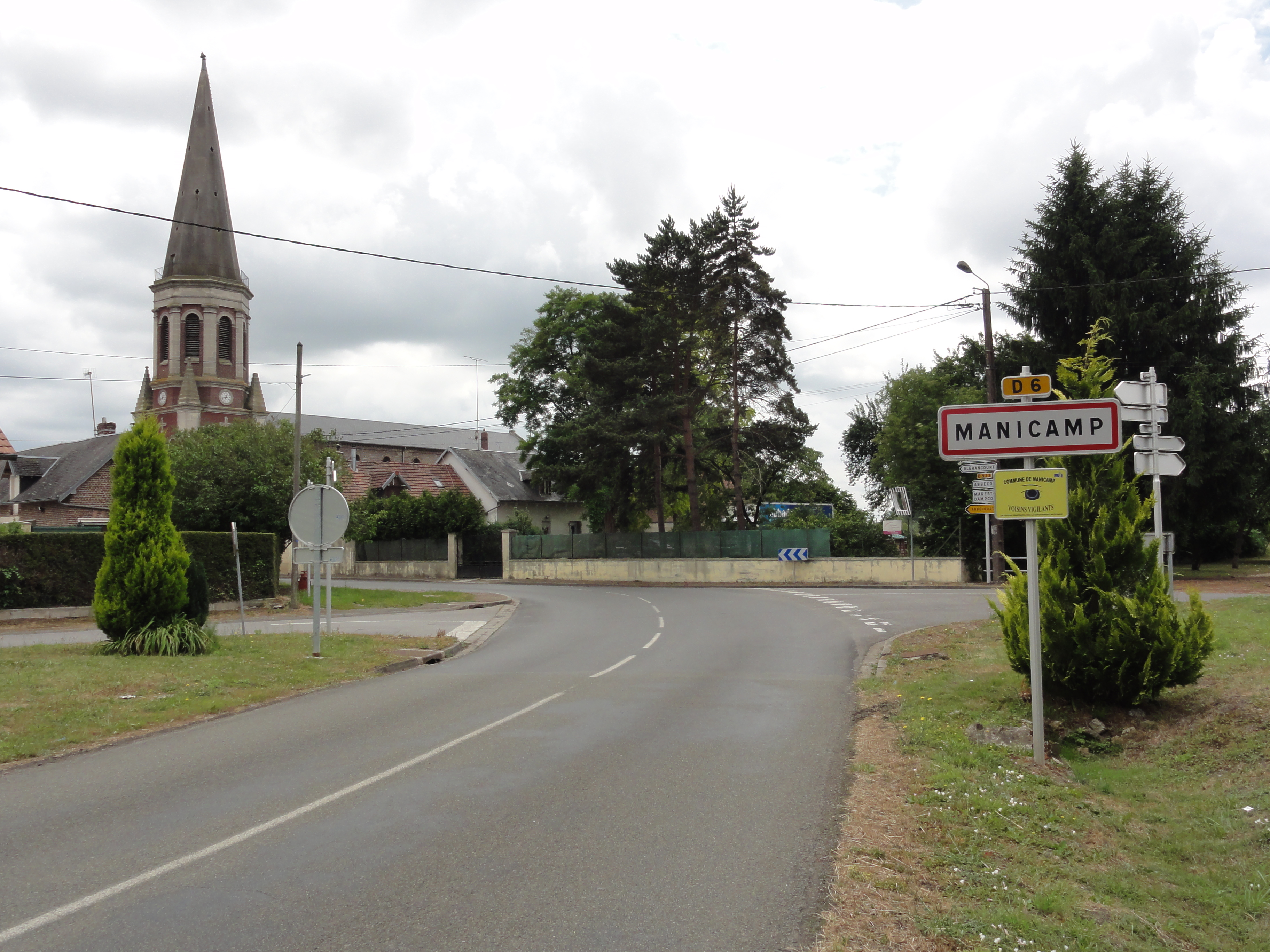 Manicamp (Aisne) city limit sign